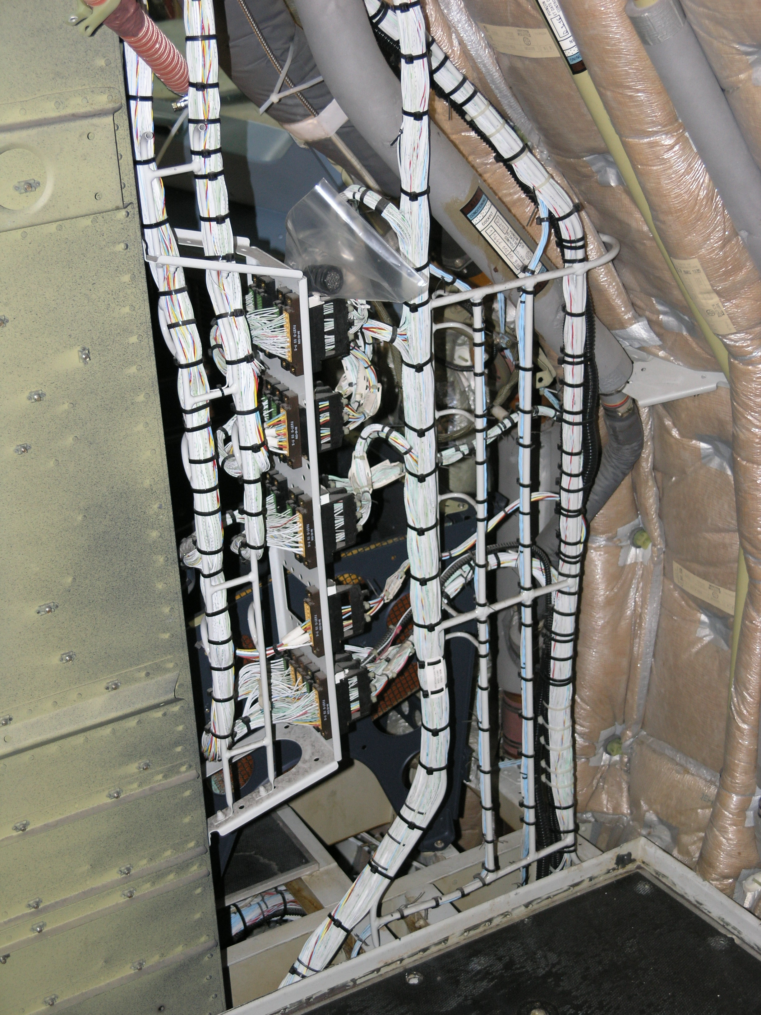 Groups of cables behind the cockpit of an Airbus A320, photographed during a 10-year maintenance operation.